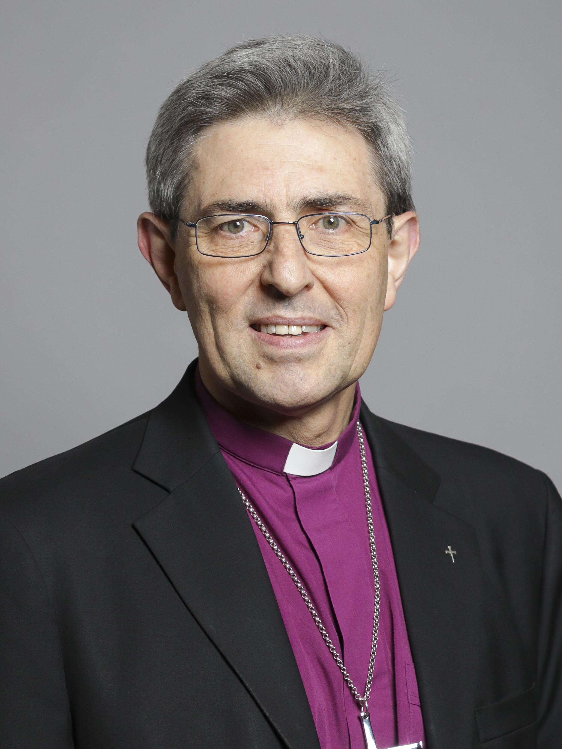 Official portrait of The Lord Bishop of Winchester Full sized portrait of The Lord Bishop of Winchester